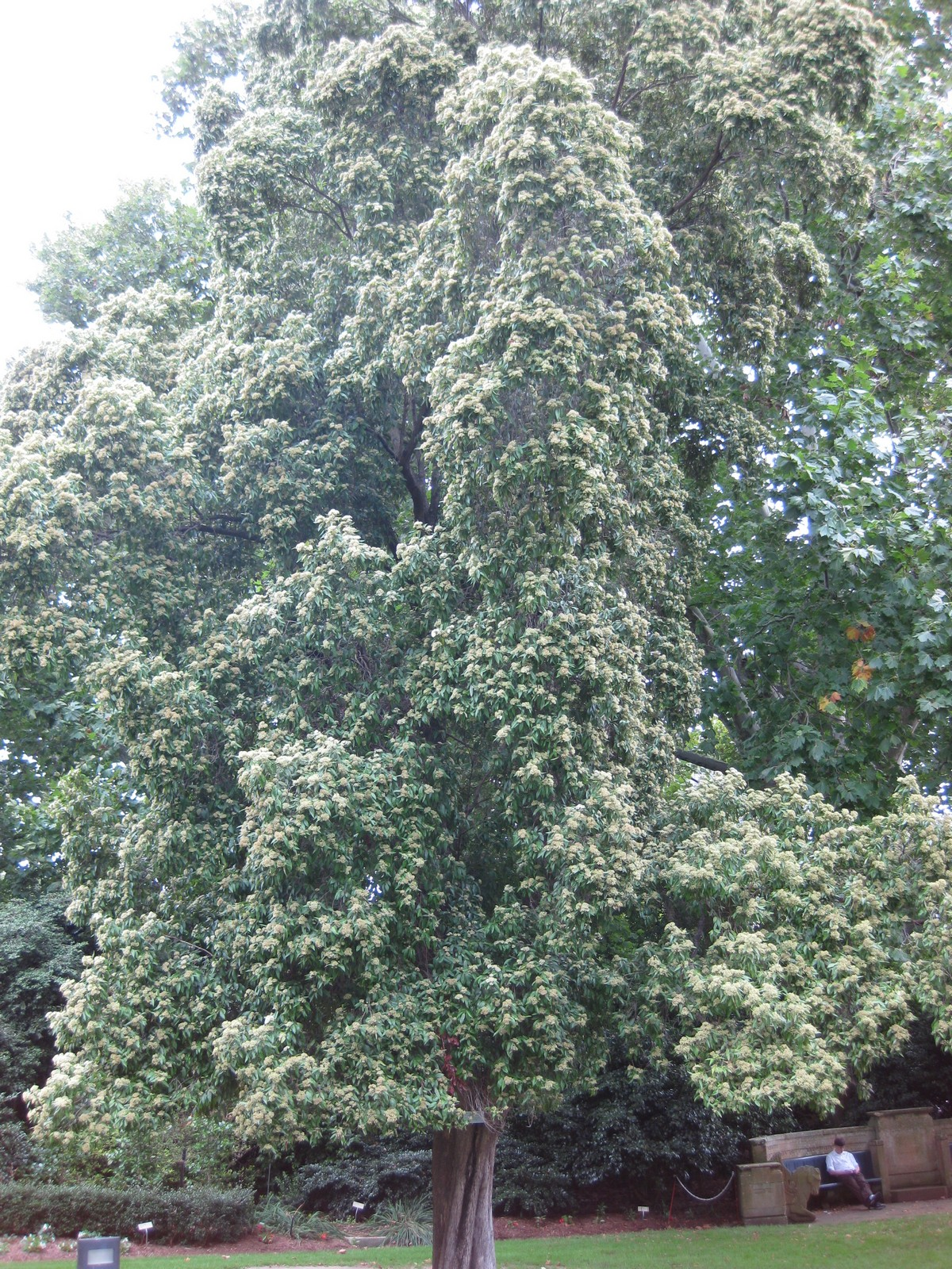 Photographed at the Royal Botanic Gardens Sydney (Australia) in January